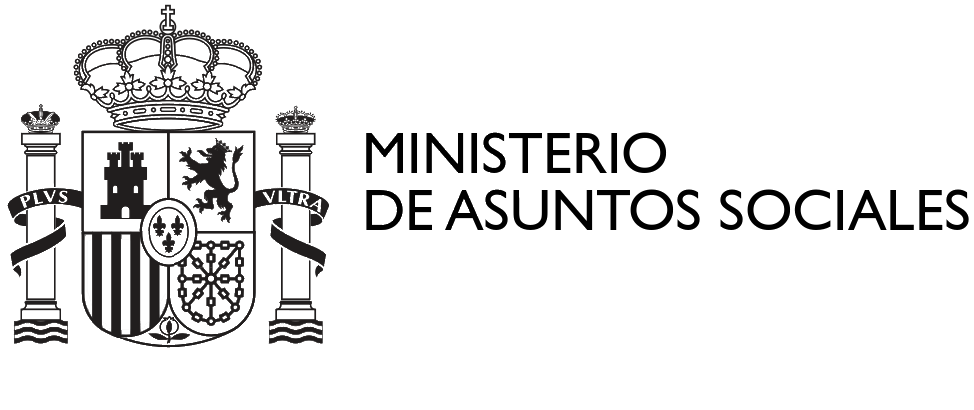 Unofficial logo of the Ministry of Social Affairs of Spain (1988-1996).